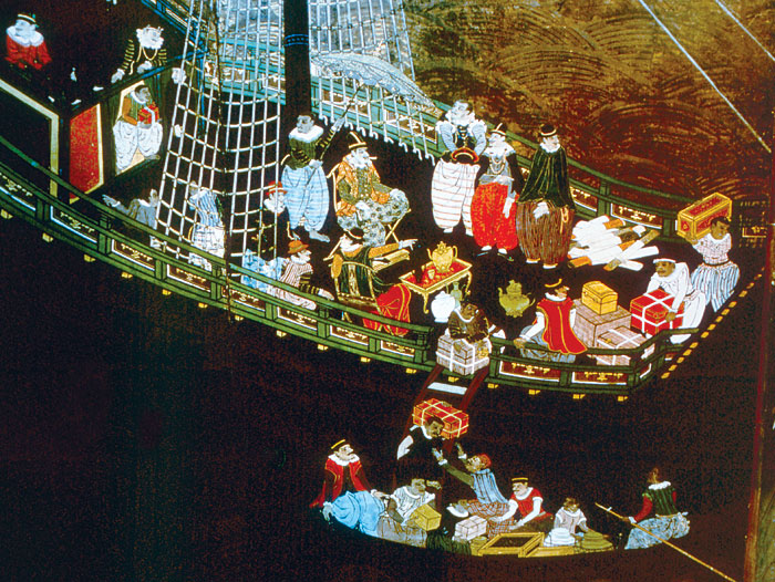 This detail from a folding namban jin (“southern barbarian screen”) shows Portuguese traders landing in Japan. Though they found Japan by accident, they did so just as Japan had discovered vast deposits of silver and was eager to trade. MUSEU CALOUSTE GULBENKIAN / WERNER FORMAN / ART RESOURCE